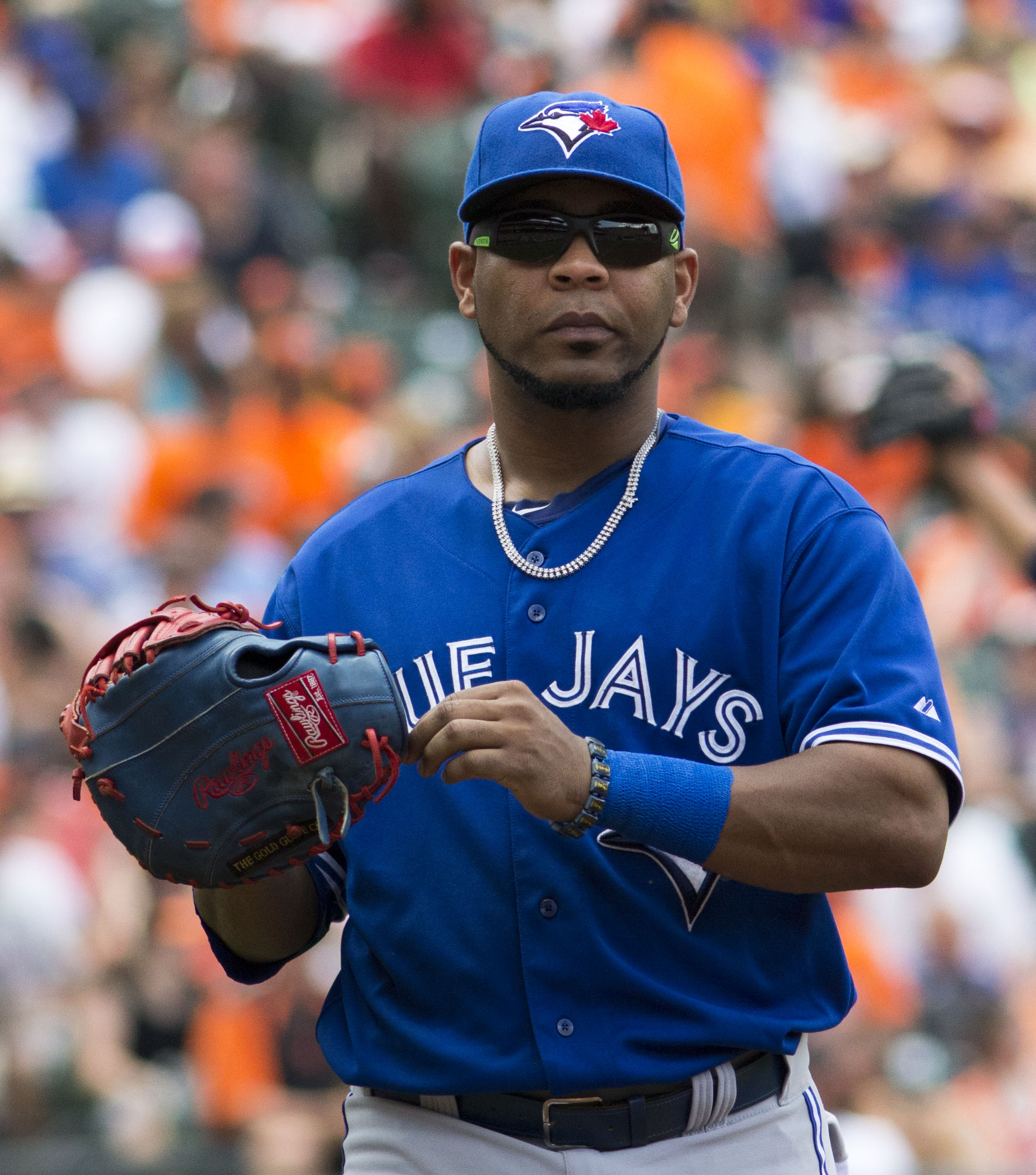 Blue Jays at Orioles 7/14/13